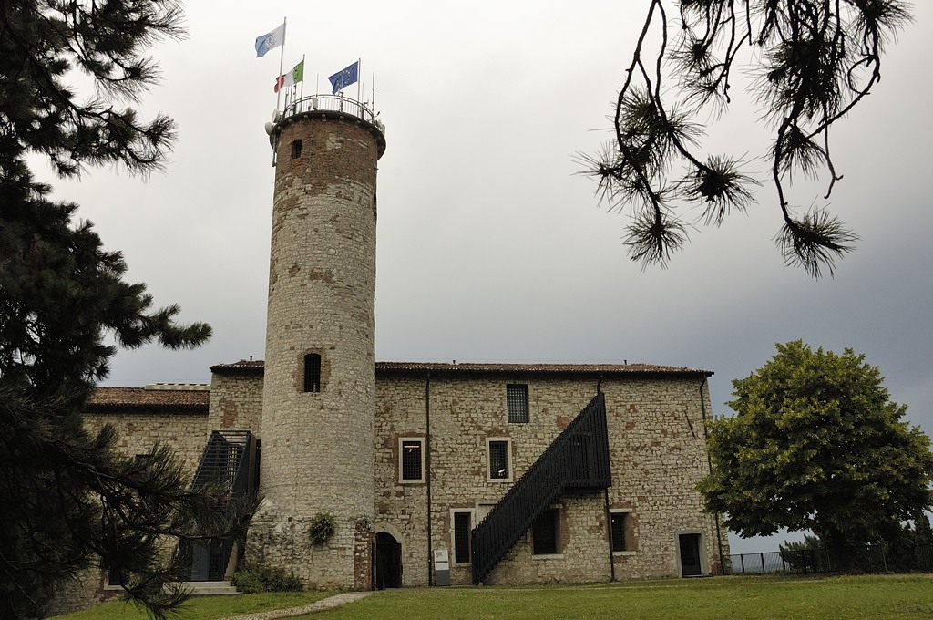 Castle of Brescia